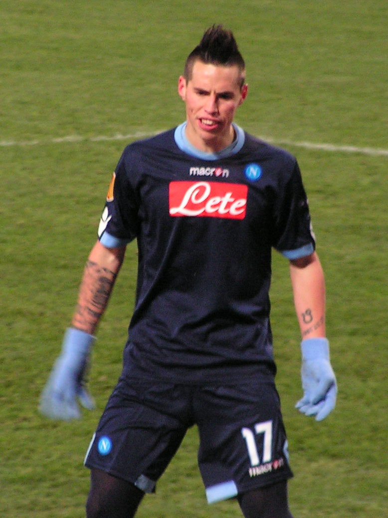 Marek Hamšík of SSC Napoli vs FC Utrecht, UEFA Europa League 2010-11.